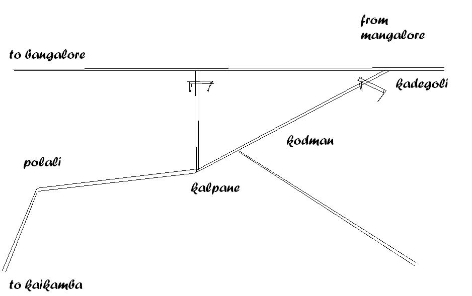 this shows the root to polali from bangalore mangalore road